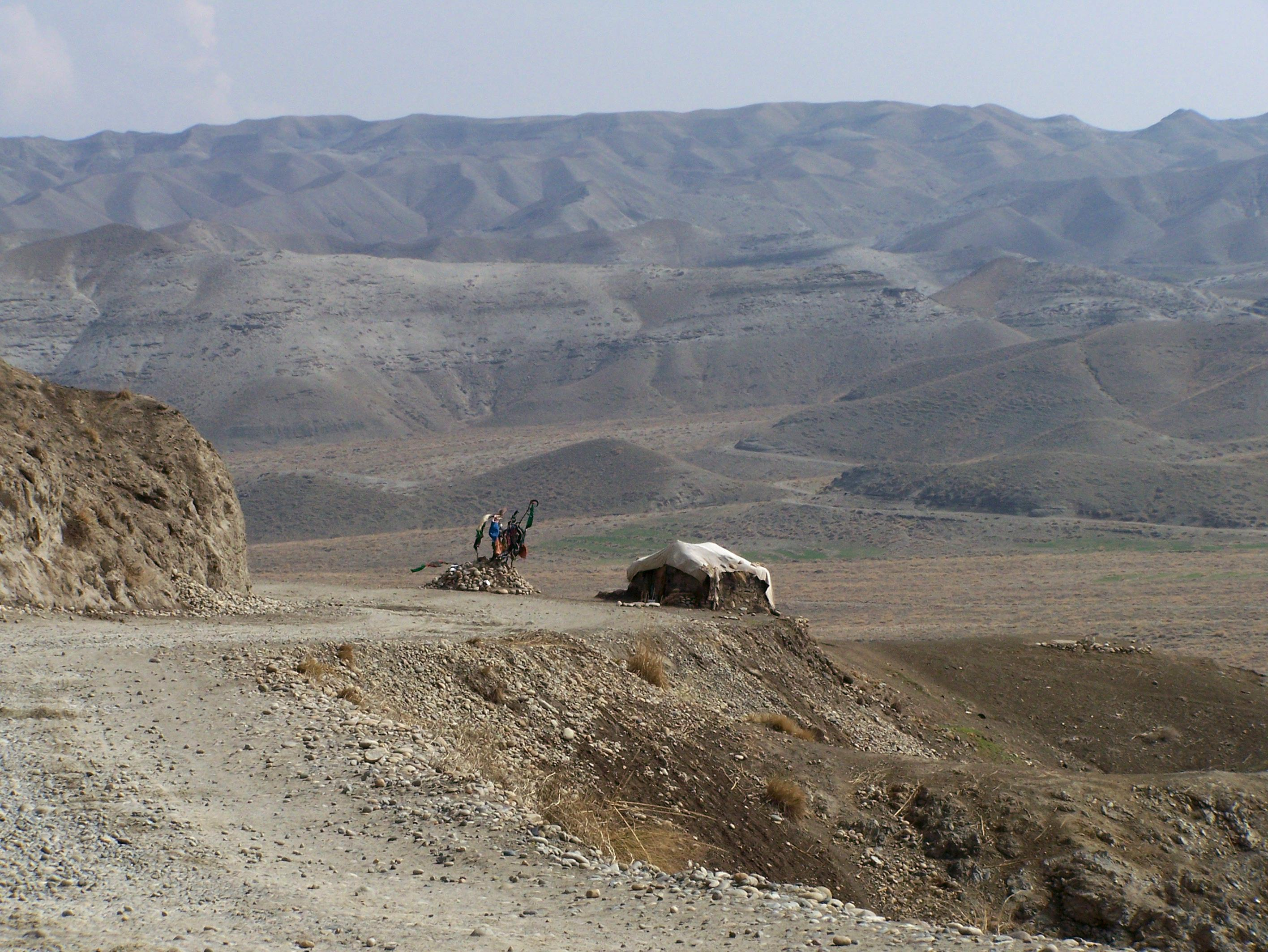 Lataband Rd. between Kabul and Surobi, Afghanistan